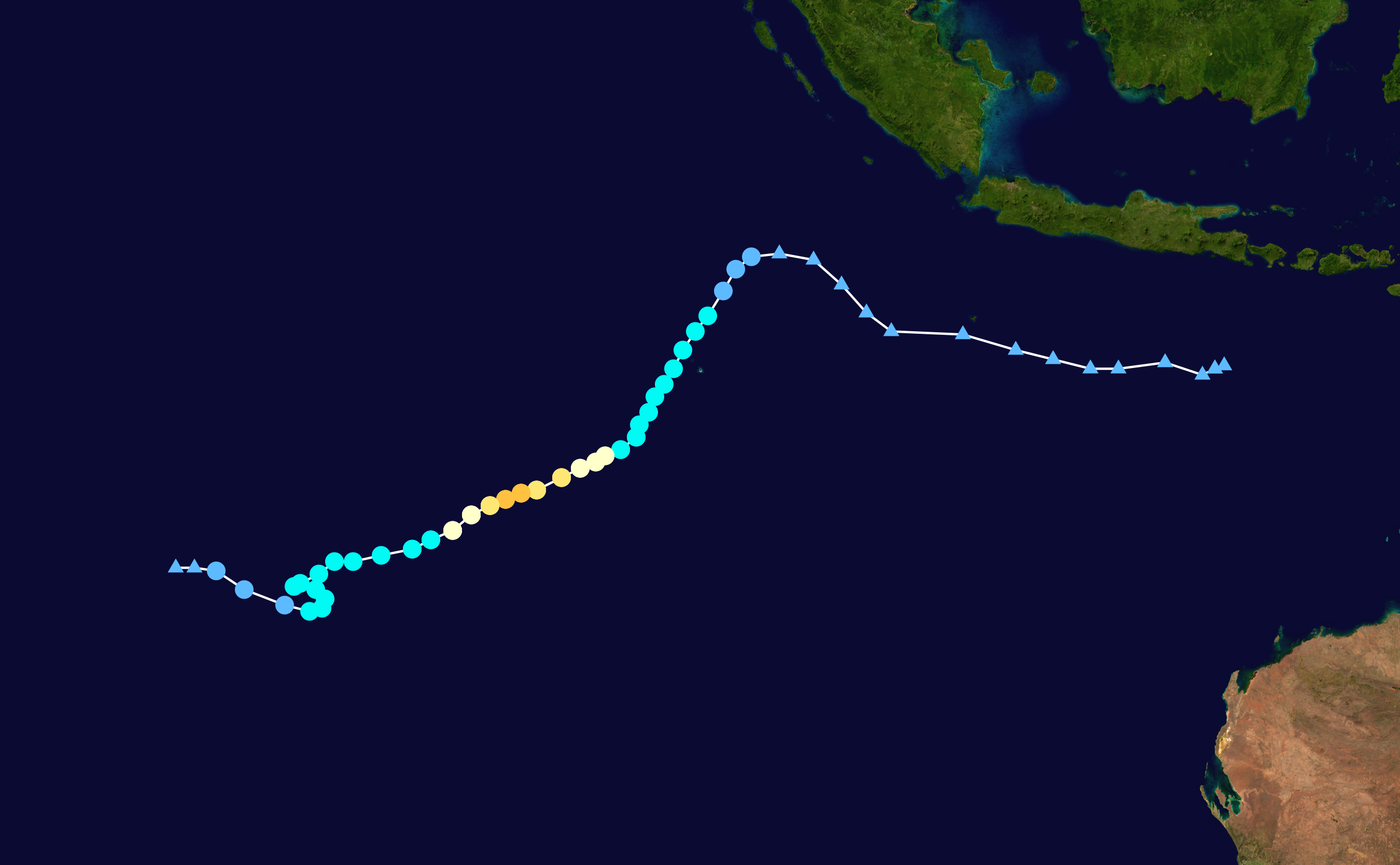 Track map of Severe Tropical Cyclone Savannah/Intense Tropical Cyclone Savannah of the 2018-19 Australian region cyclone season and the 2018-19 South-West Indian Ocean cyclone season. The points show the location of the storm at 6-hour intervals. The colour represents the storm's maximum sustained wind speeds as classified in the Saffir–Simpson scale (see below), and the shape of the data points represent the nature of the storm, according to the legend below. Saffir–Simpson scale Tropical depression≤38 mph≤62 km/h Category 3111–129 mph178–208 km/h Tropical storm39–73 mph63–118 km/h Category 4130–156 mph209–251 km/h Category 174–95 mph119–153 km/h Category 5≥157 mph≥252 km/h Category 296–110 mph154–177 km/h Unknown Storm type Tropical cyclone Subtropical cyclone Extratropical cyclone / Remnant low / Tropical disturbance